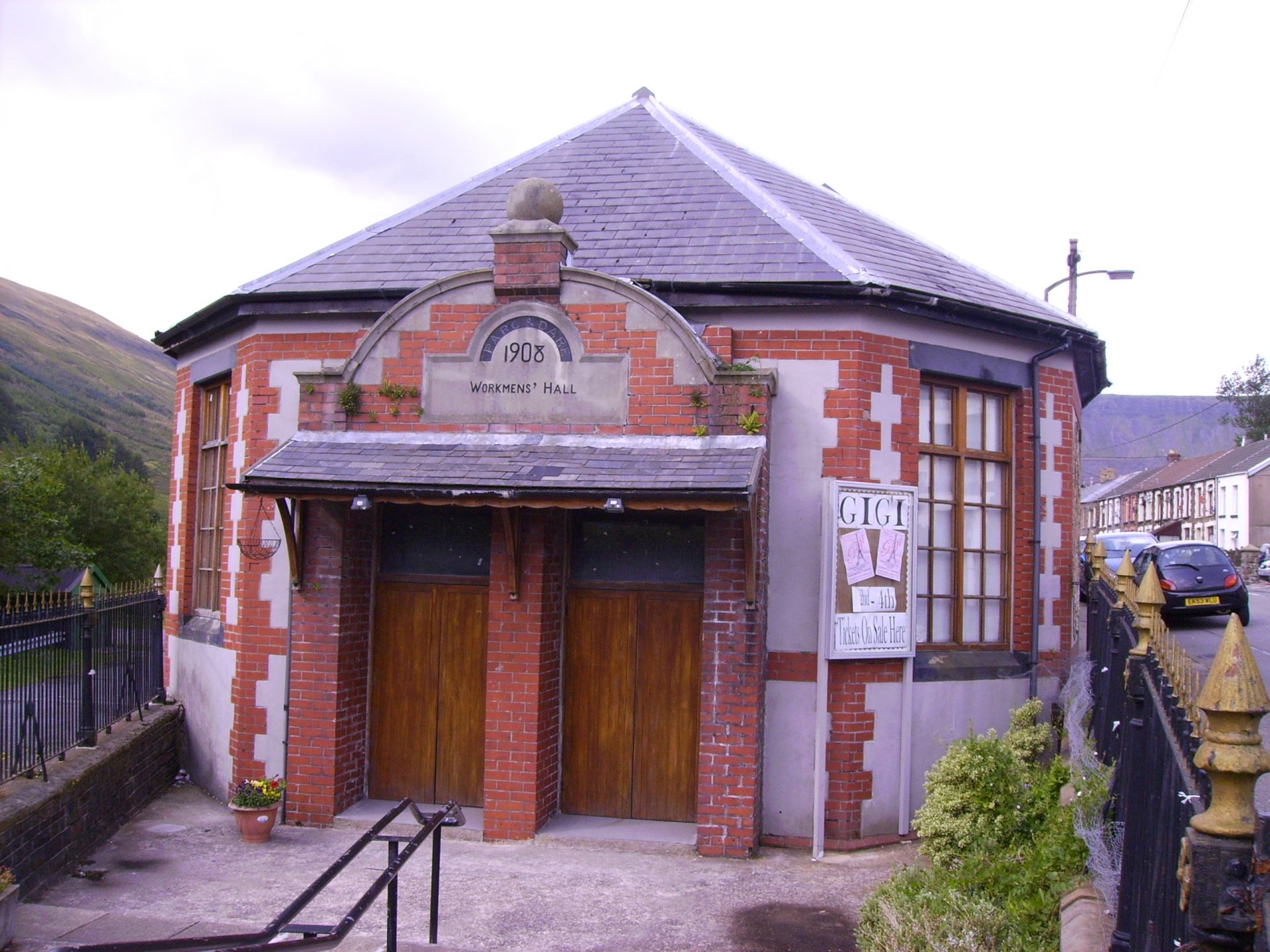 Parc and Dare Workmen's Hall, Cwmparc, Rhondda